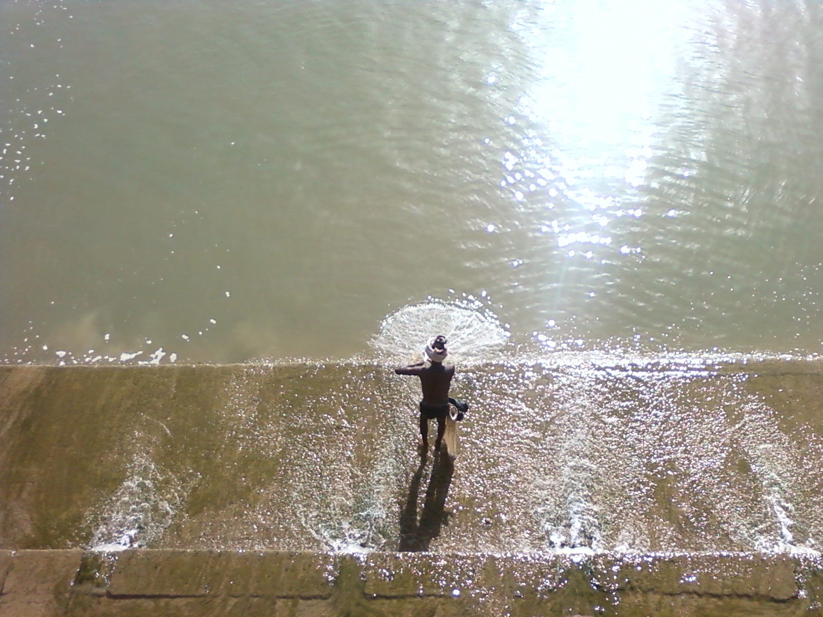 anai karai dam, Tamil Nadu